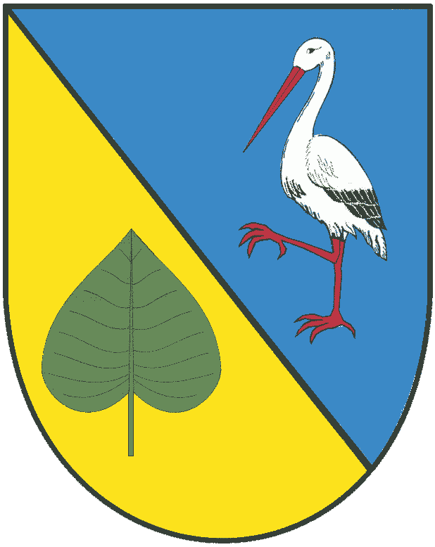 Municipal coat of arms of Dobřenice village, Hradec Králové District, Czech Republic.